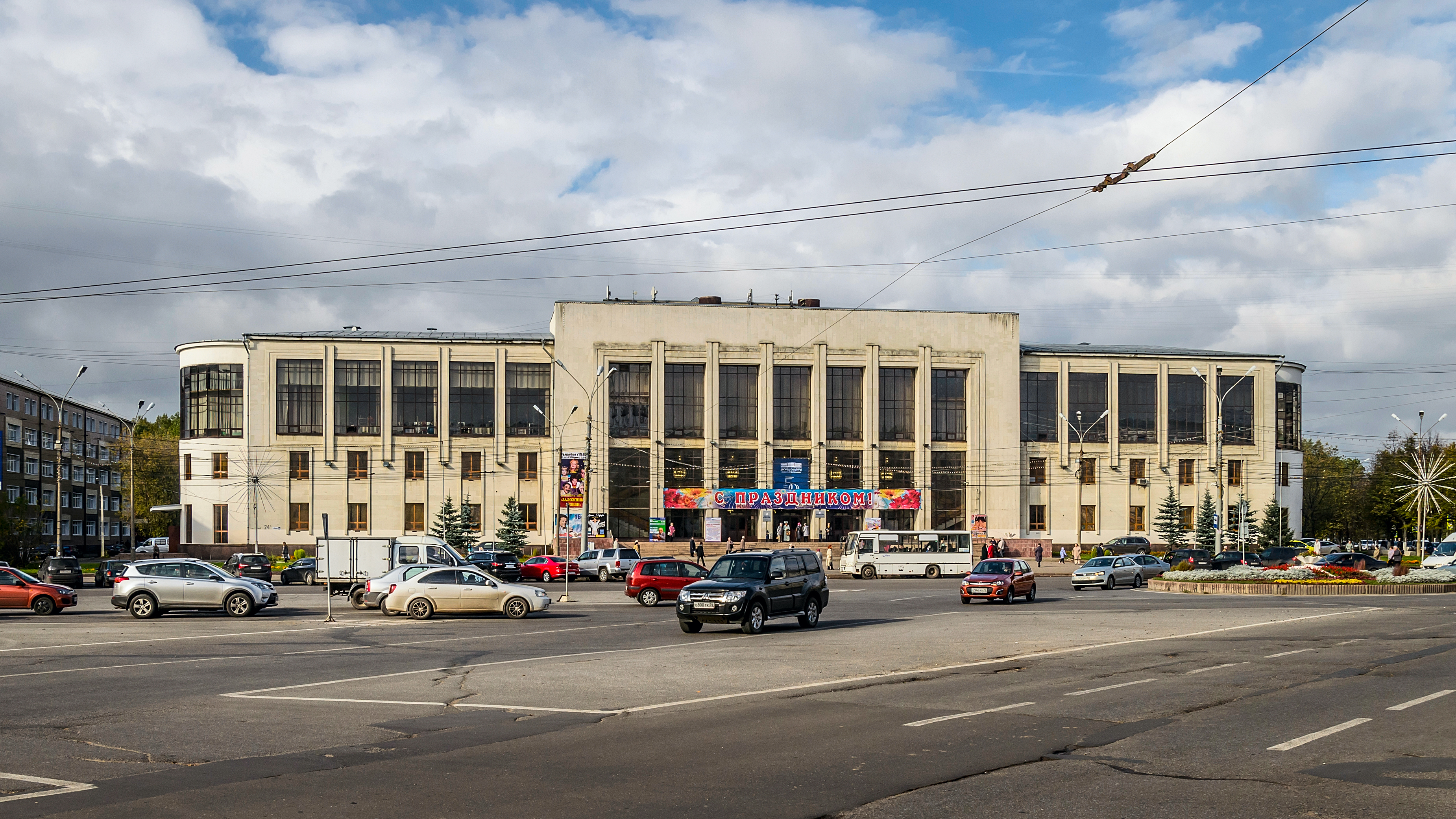 Dobrynin Palace of Culture in Yaroslavl